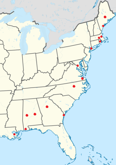 This map is based on Labov et al's 2006 Atlas of North American English (p. 48), showing metropolitan areas where at least one documented speaker exhibited 50% or higher non-rhoticity in their speech.